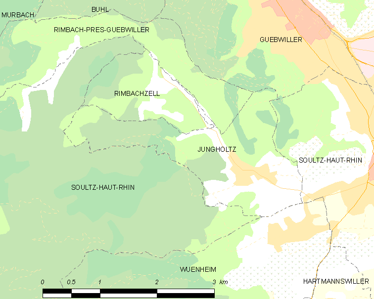 Map of French municipality